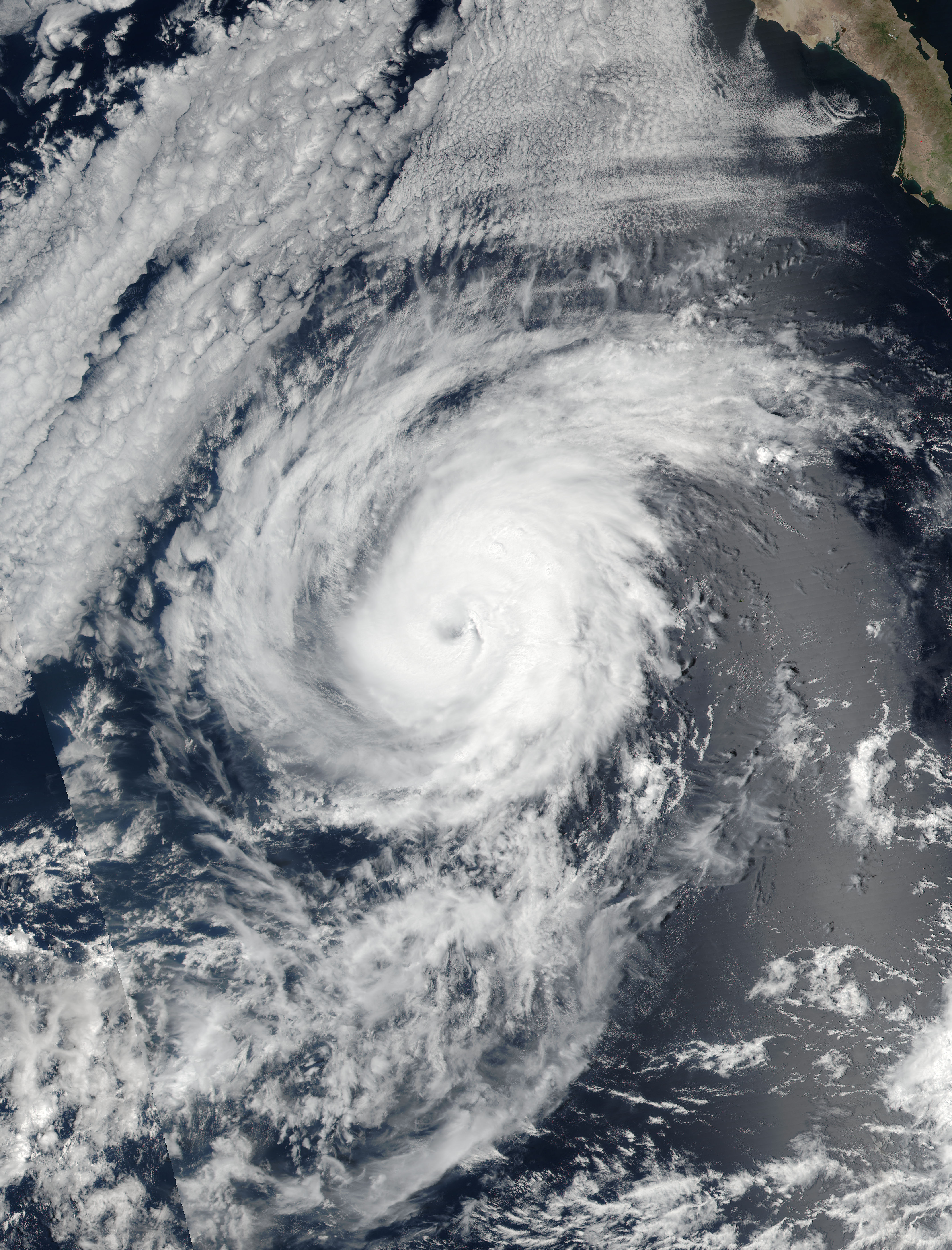 Hurricane Orlene (16E) in the eastern Pacific